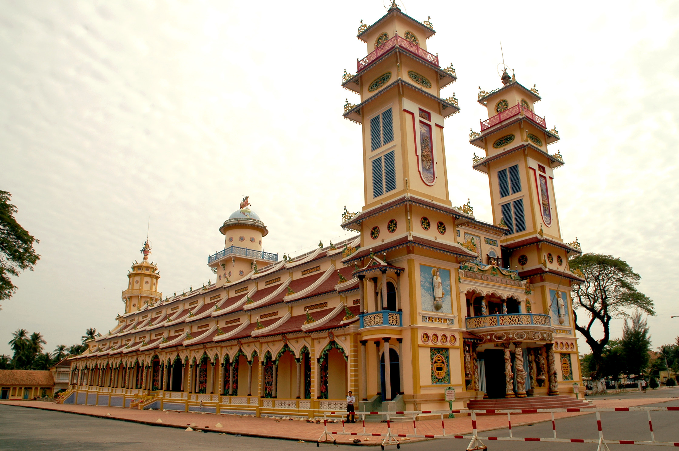 Cao Dai Temple wide angle image, shot by Vashikaran Rajendrasingh